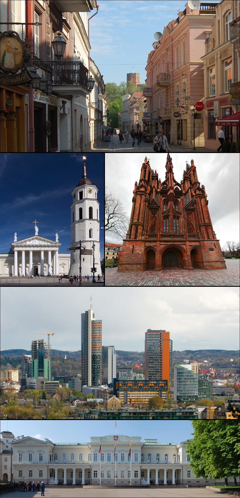 Montage of Vilnius pictures on Commons